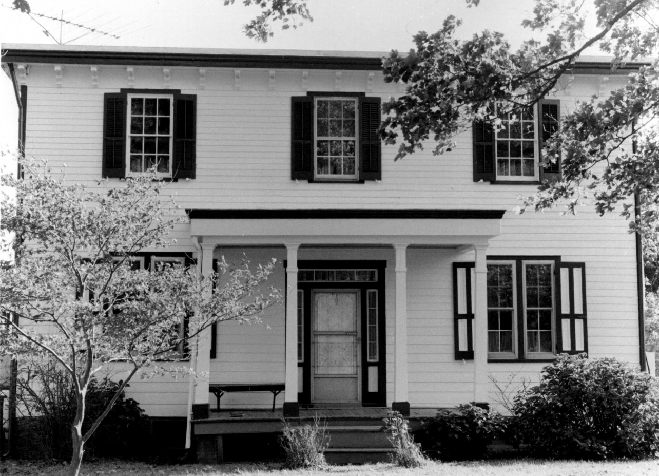 McWhorter House, north of Odessa, Delaware. Demolished in 2004.